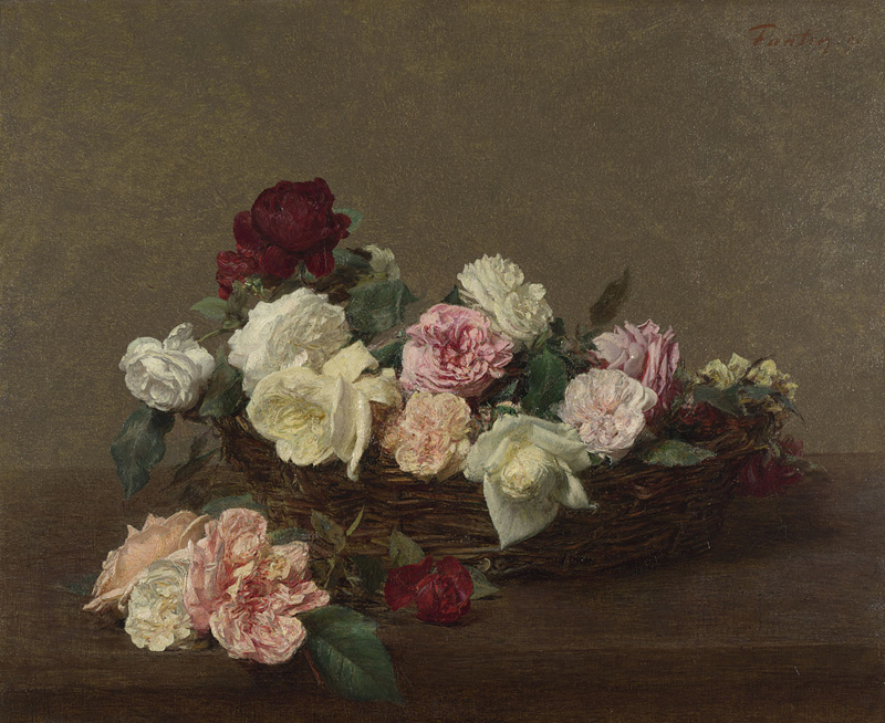 Ignace-Henri-Théodore Fantin-Latour, 1836 - 1904A Basket of Roses1890Oil on canvas, 48.9 x 60.3 cmBequeathed by Mrs M.J. Yates, 1923NG3726